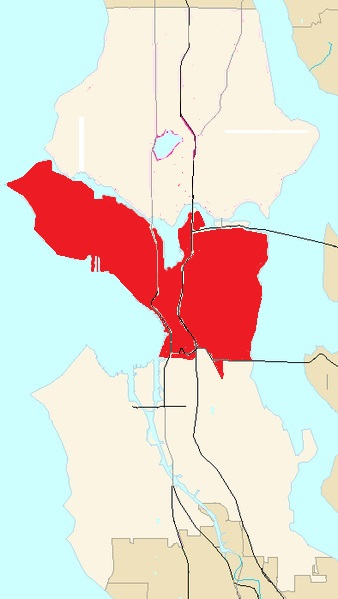 Based on a template outline map of Seattle I have highlighted the area referred to as Central Seattle (vs. North Seattle, South Seattle, and West Seattle)